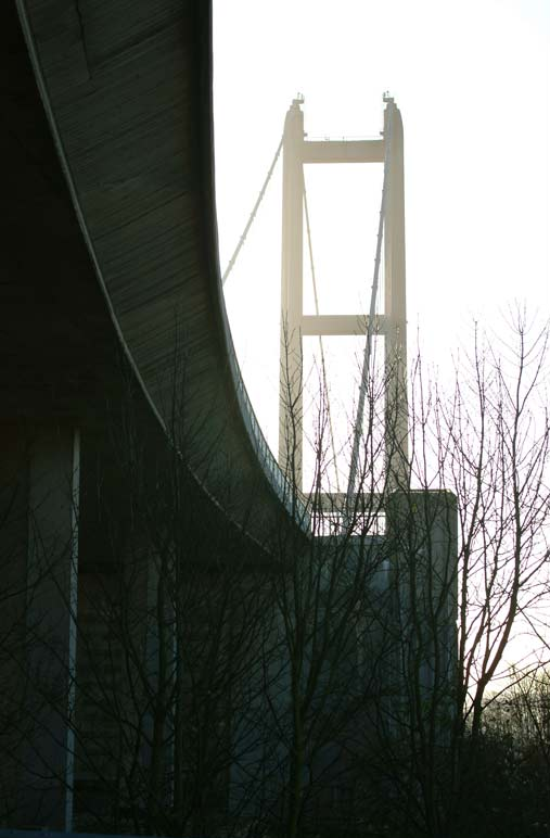 Humber Bridge, from beneath the road on the North Bank at Hessle, East Riding of Yorkshire, England.The size of the towers can be made out.